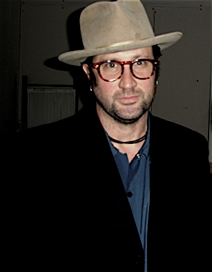 Photo of John Fell at Glasslands in Brooklyn, NY